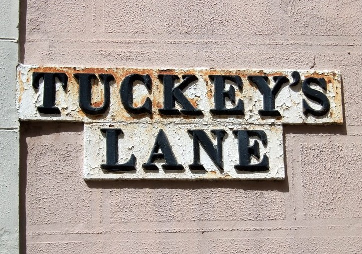 Street Signs of Gibraltar - Tuckeys lane